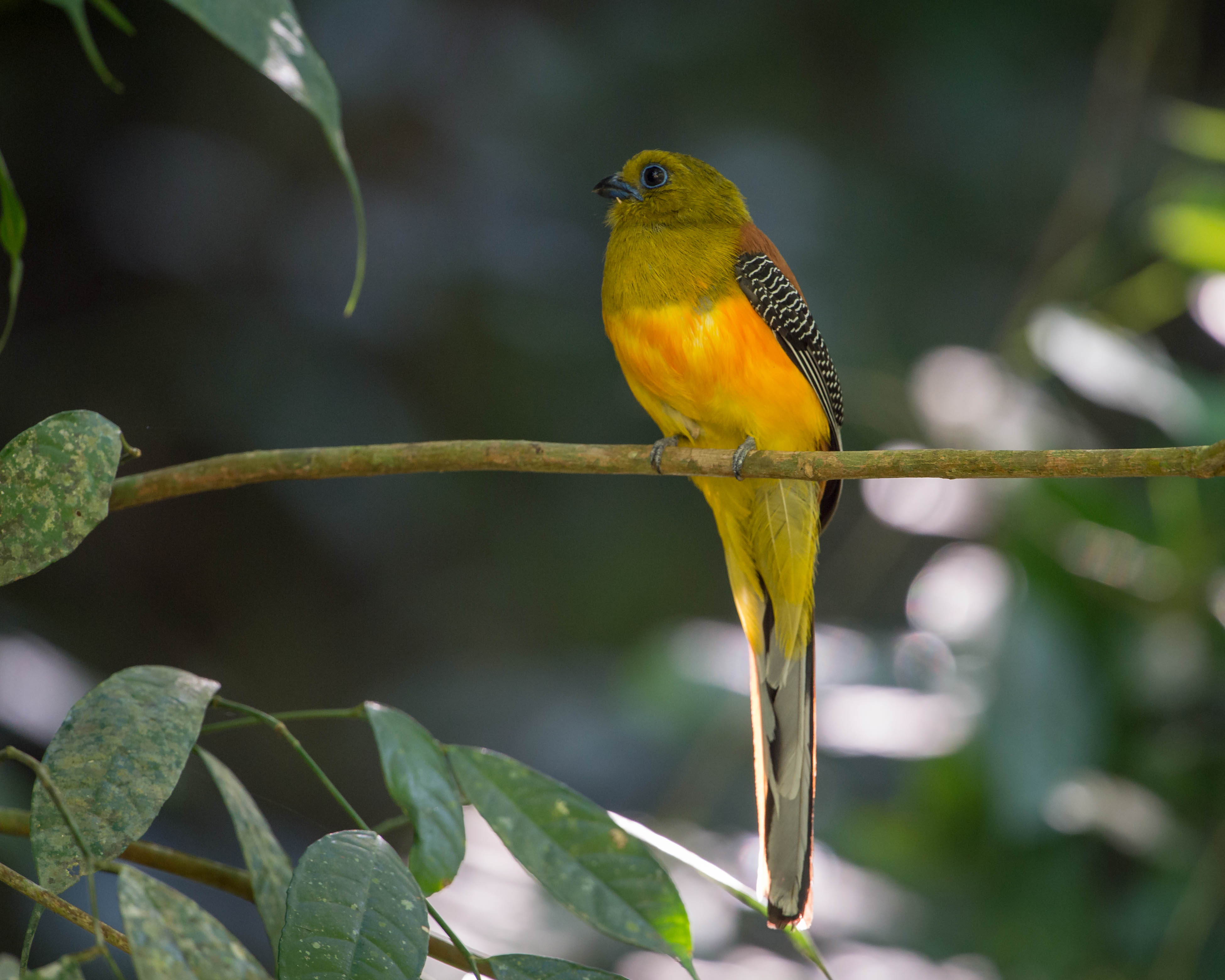 Orange-breasted Trogon (Harpactes oreskios) at Kaeng Krachan National Park, Thailand. 27 March 2013